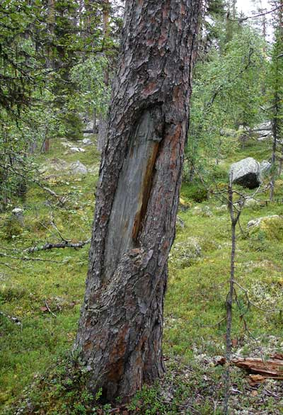 Pine with scars from Sami bark peeling. Låkkeråvatj, Jokkmokk, Swedish Lapland.